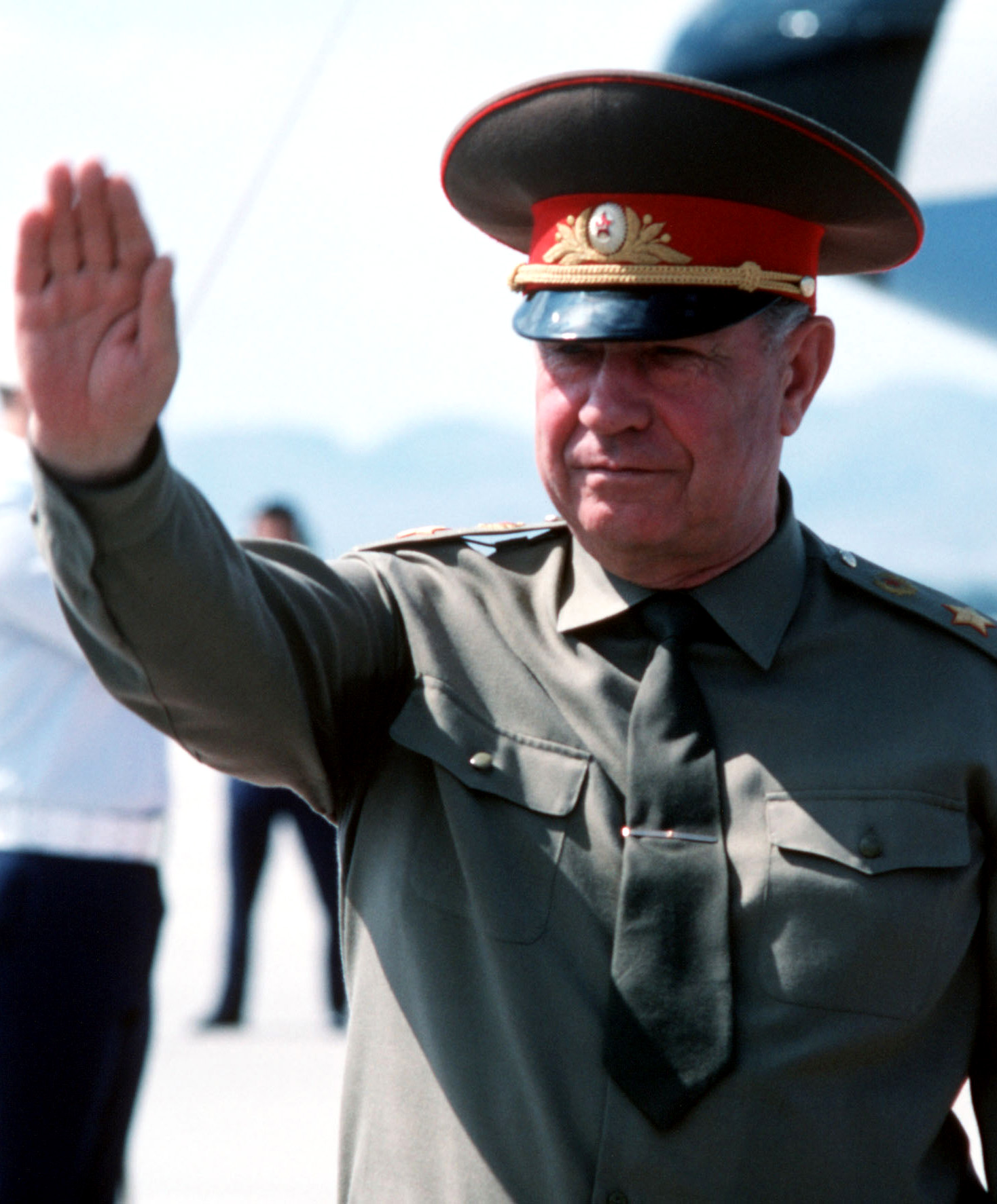 Министр обороны СССР Дмитрий Тимофеевич Язов во время посещения Соединенных Штатов в 1989.